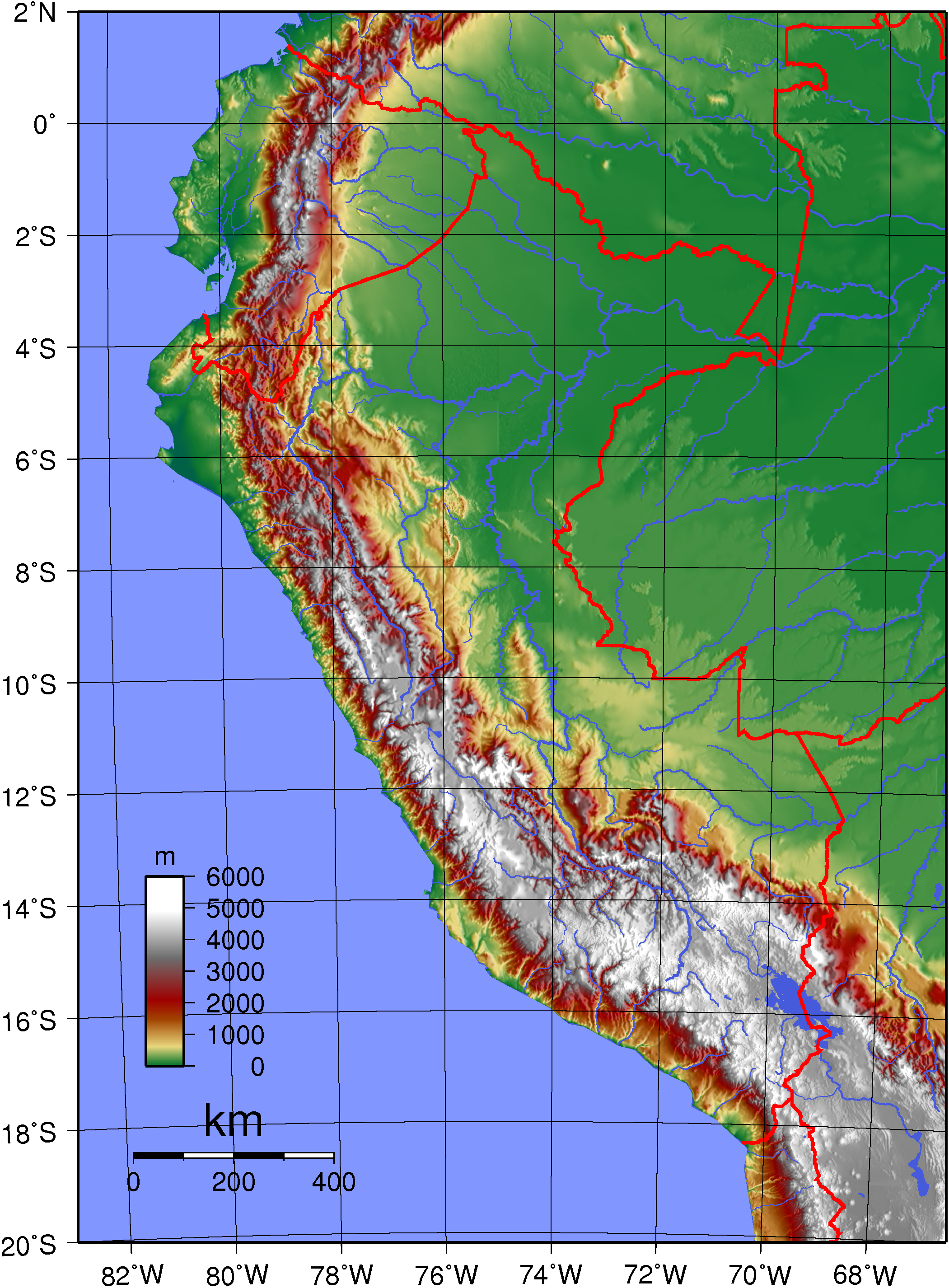 Topographic map of Peru. Created with GMT from GLOBE data.